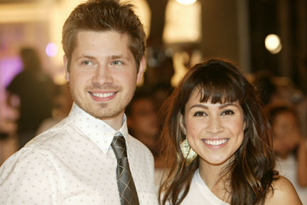 eTalk Star! Schmooze, Toronto International Film Festival party.